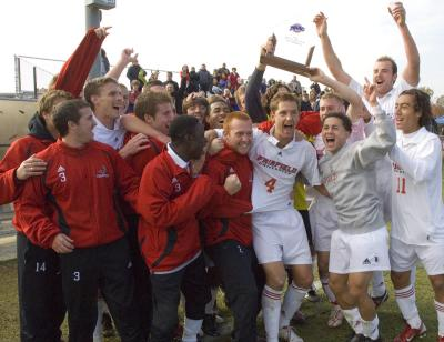 2006 MAAC Champions, Fairfield Stags men's soccer, Fairfield University, Fairfield, Connecticut, USA